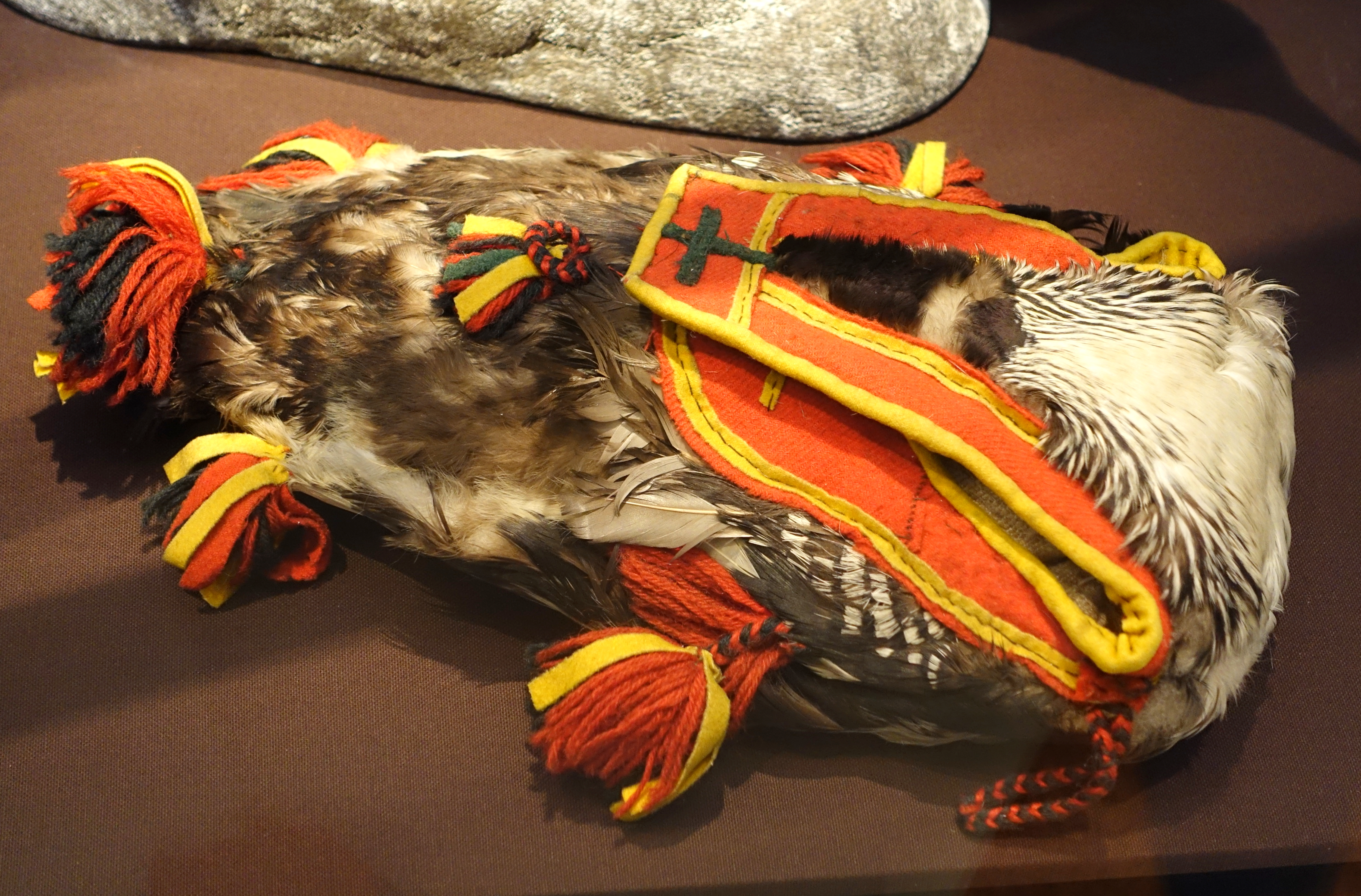 Exhibit in the Etnografiska museet, Stockholm, Sweden. This work is old enough so that it is in the public domain.